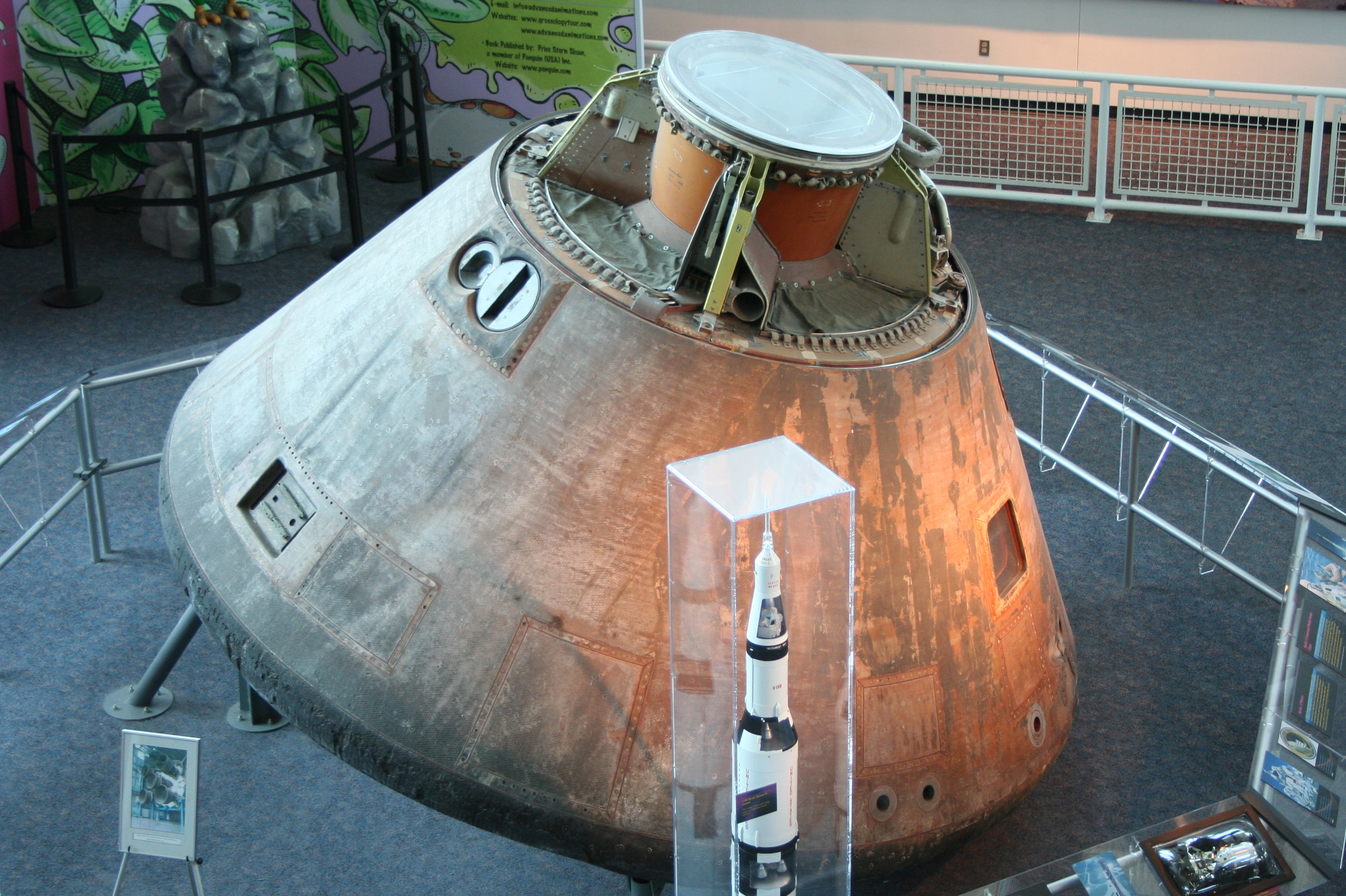 The Apollo 12 command module, Yankee Clipper, on display at the Virginia Air and Space Center in Hampton, Virginia.